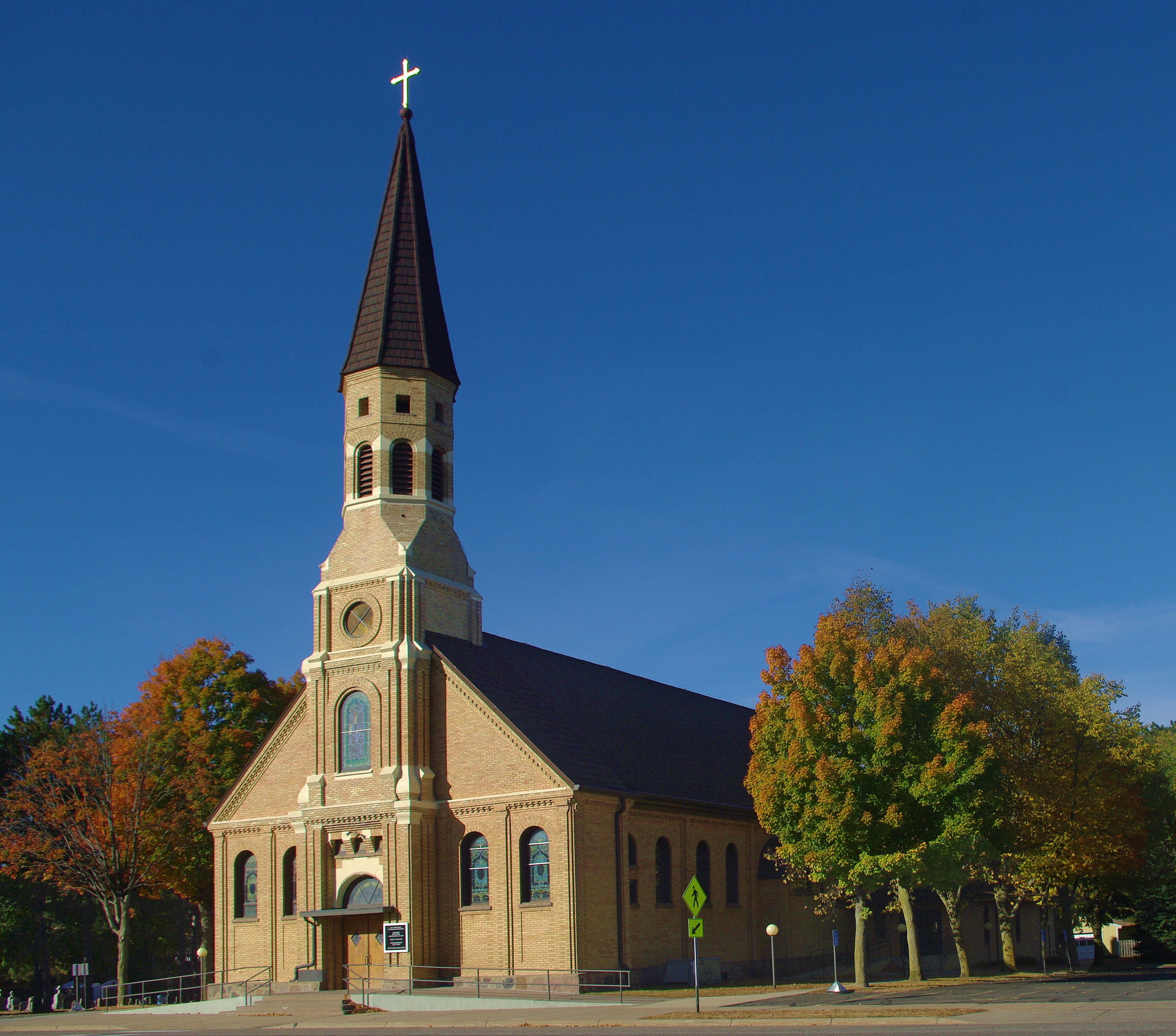 Church of St. Stephen-Catholic A beautiful fall day in central Minnesota, USA.